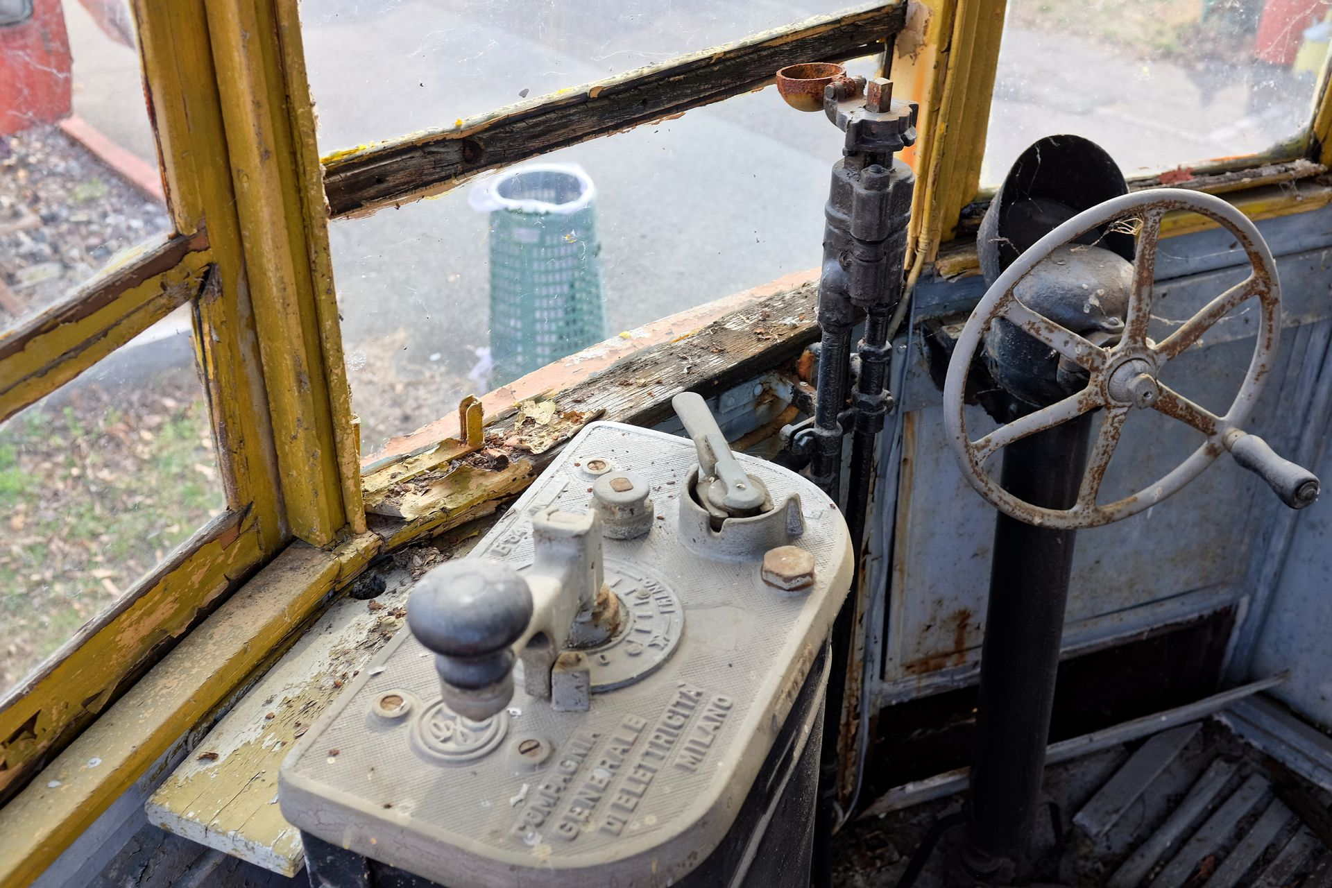 Driving place of the Milan tramway type Edison, vehicle 256, at the Volandia museum in Somma Lombardo (Varese, Italy) in 2019, awaiting restoration.